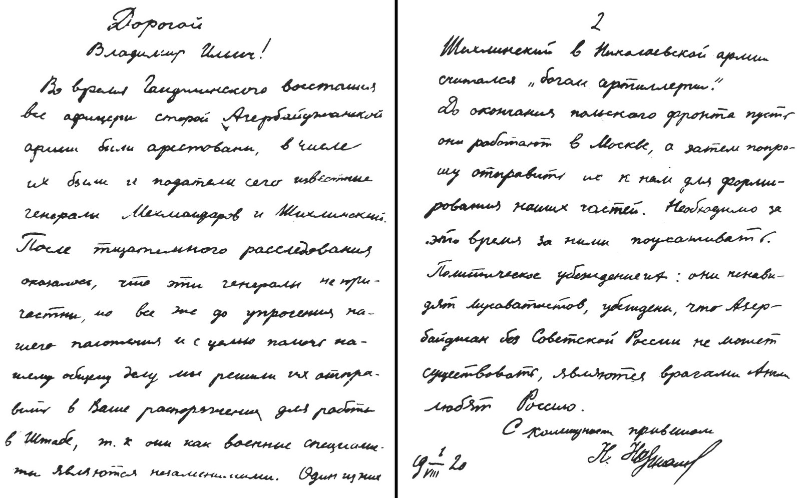 A letter from Narimanov N. to Lenin about russian generals Shikhlinski A. and Mehmandarov S., 1920